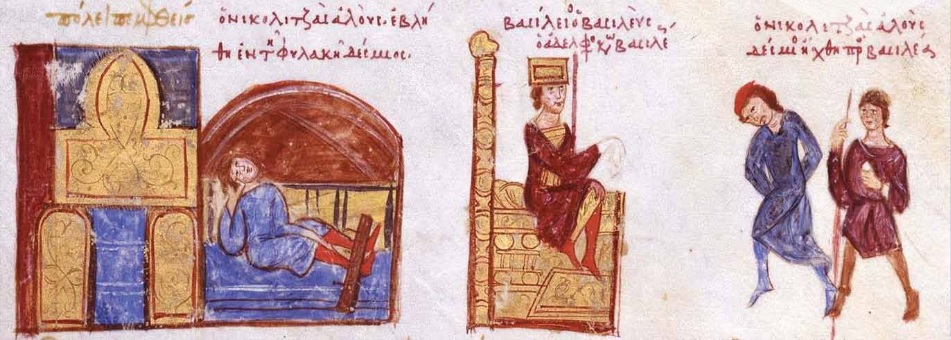 The second capture of Nikulitsa. On the left, Nikulitsa in prison with wooden stocks on his feet; on the right, Nikulitsa with tied hands escorted before emperor Basil II. Мiniature from the Madrid Skylitzes, f. 186r, Spanish National library (facsimile edition, Athens 2000).